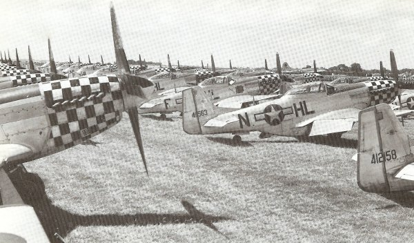 P-51D fighters at Duxford airfield, England, Summer 1945